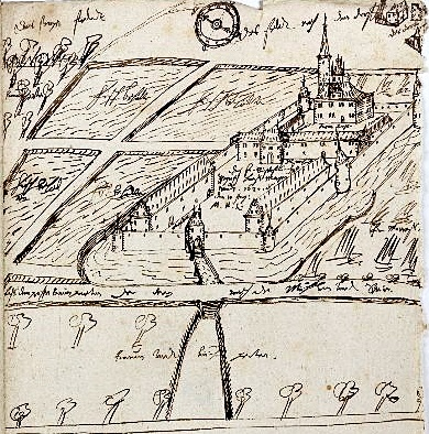 Zeichnung der Burg Marientraut bei Hanhofen, gefertigt von Landgraf Moritz von Hessen-Kassel